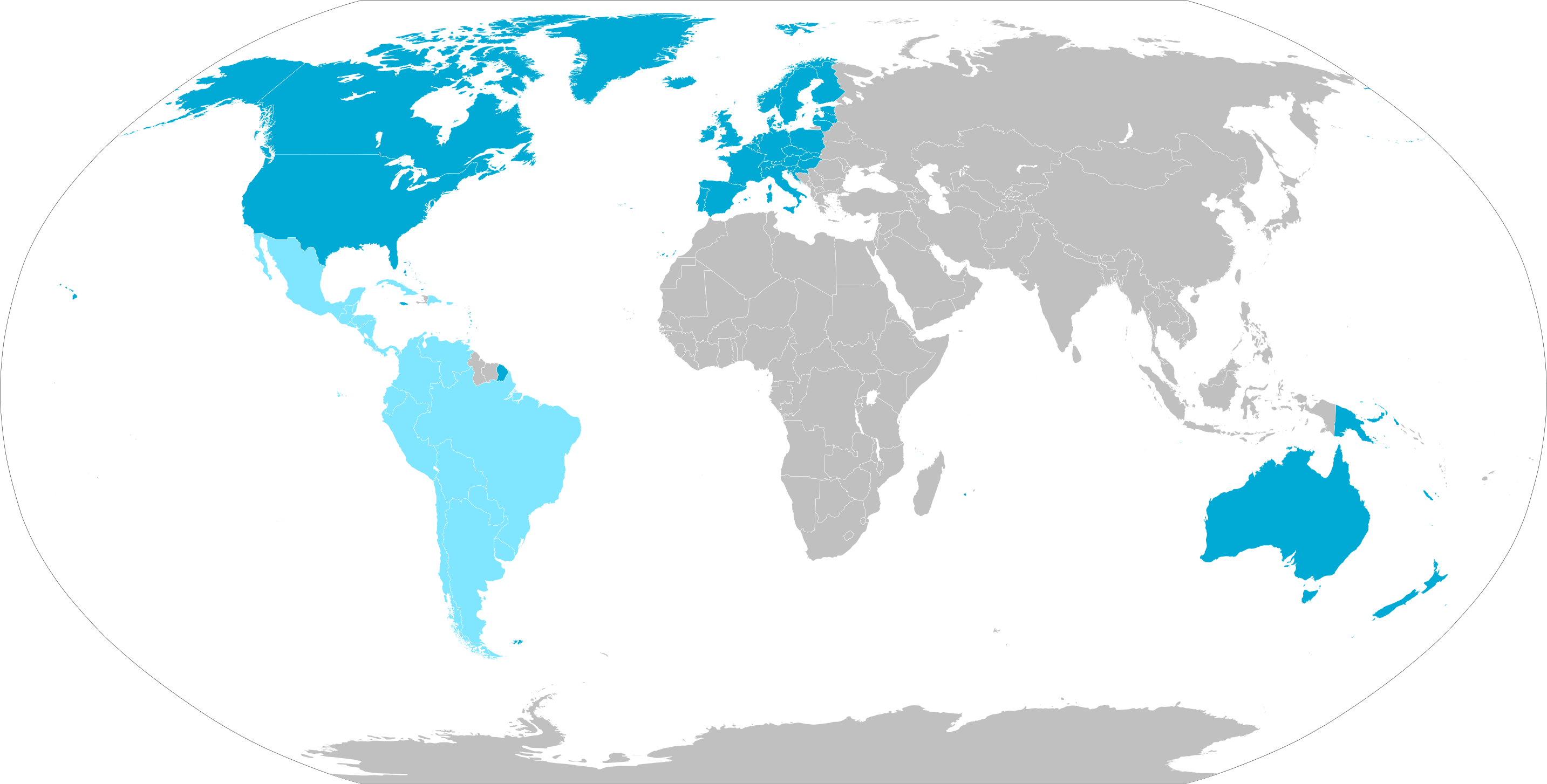 The West in Dodger blue based-on Samuel Huntington in his book Clash of Civilizations (1996). He also dwells that Latin America, depicted in light blue, either a part of the West or a separate civilization akin to the West, he also considered Haiti to be separated from both Latin America and rest of the west.